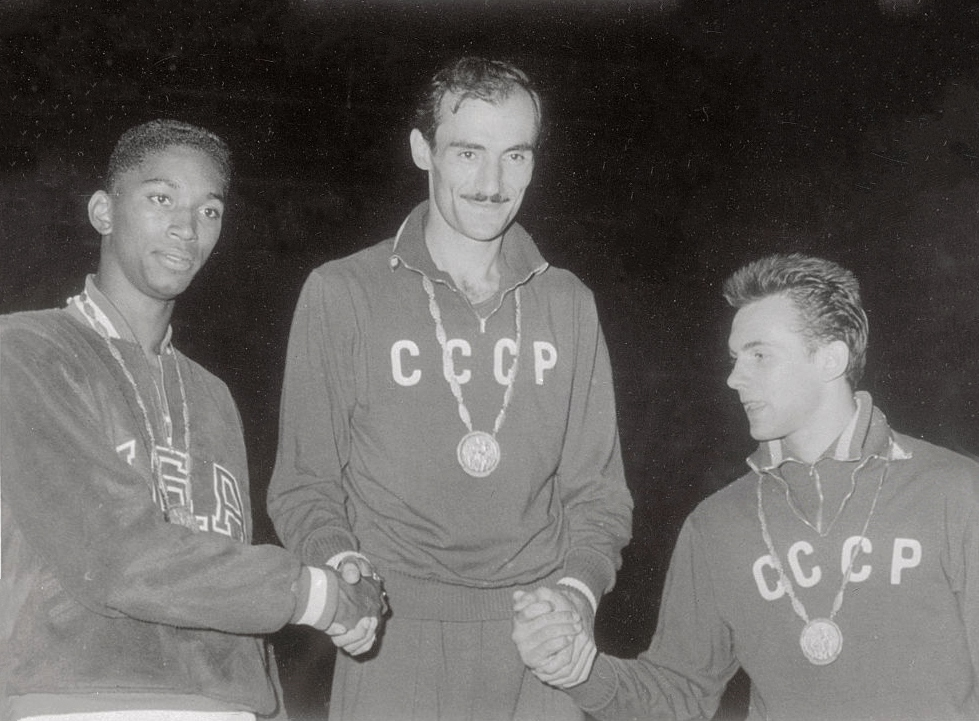 1960 Press Photo John Thomas 3rd Robert Shavlakadze 1st, V Brumel 2nd (Rome Olympics, high jump podium)